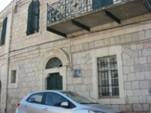 Eliezer Ben-Yehuda's home on Ethiopia St. in Jerusalem